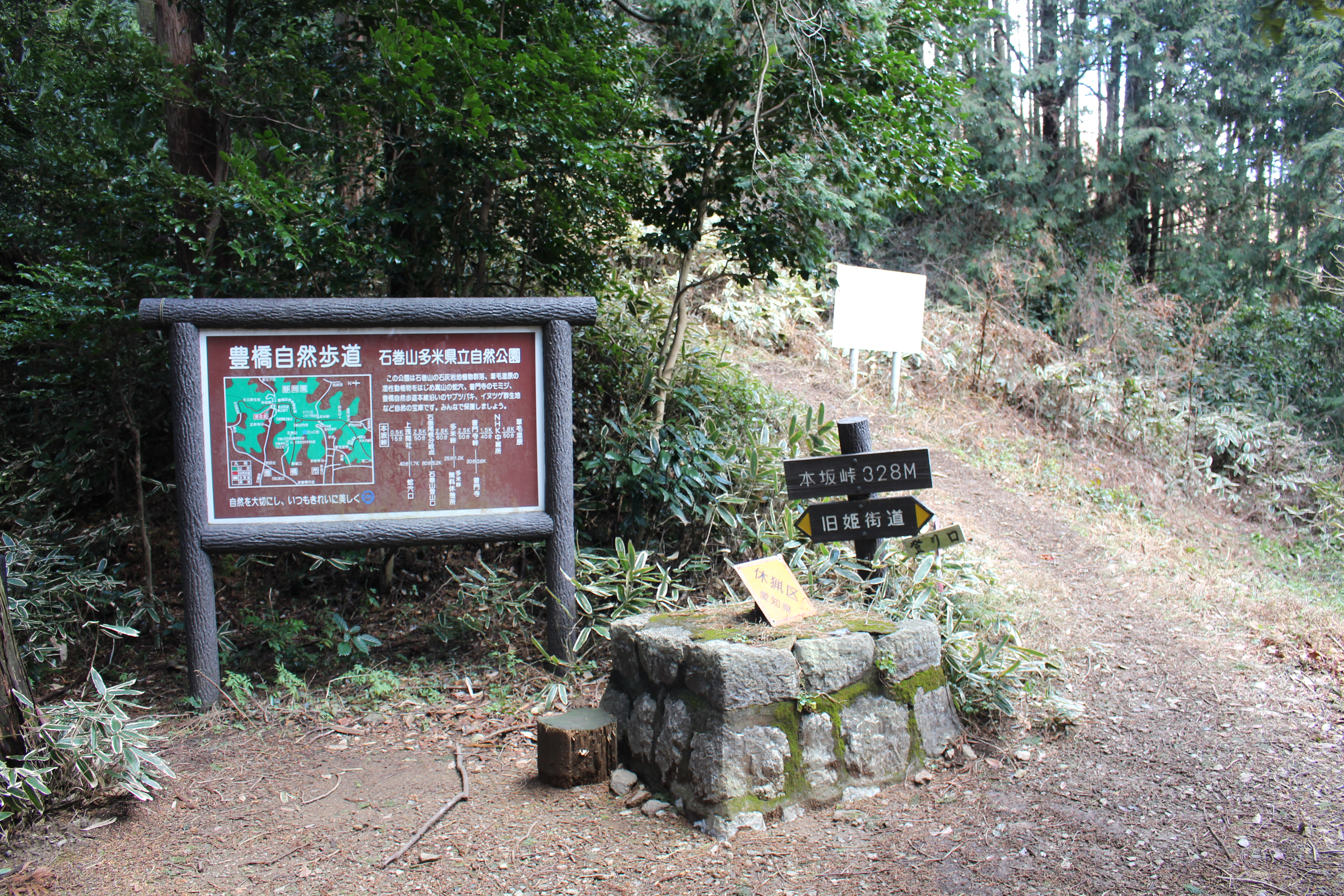 Honzaka Pass of Yumihari Mountains in Toyohashi, Aichi prefecture and Kita-ku, Hamamatusu, Shizuoka prefecture, Japan.